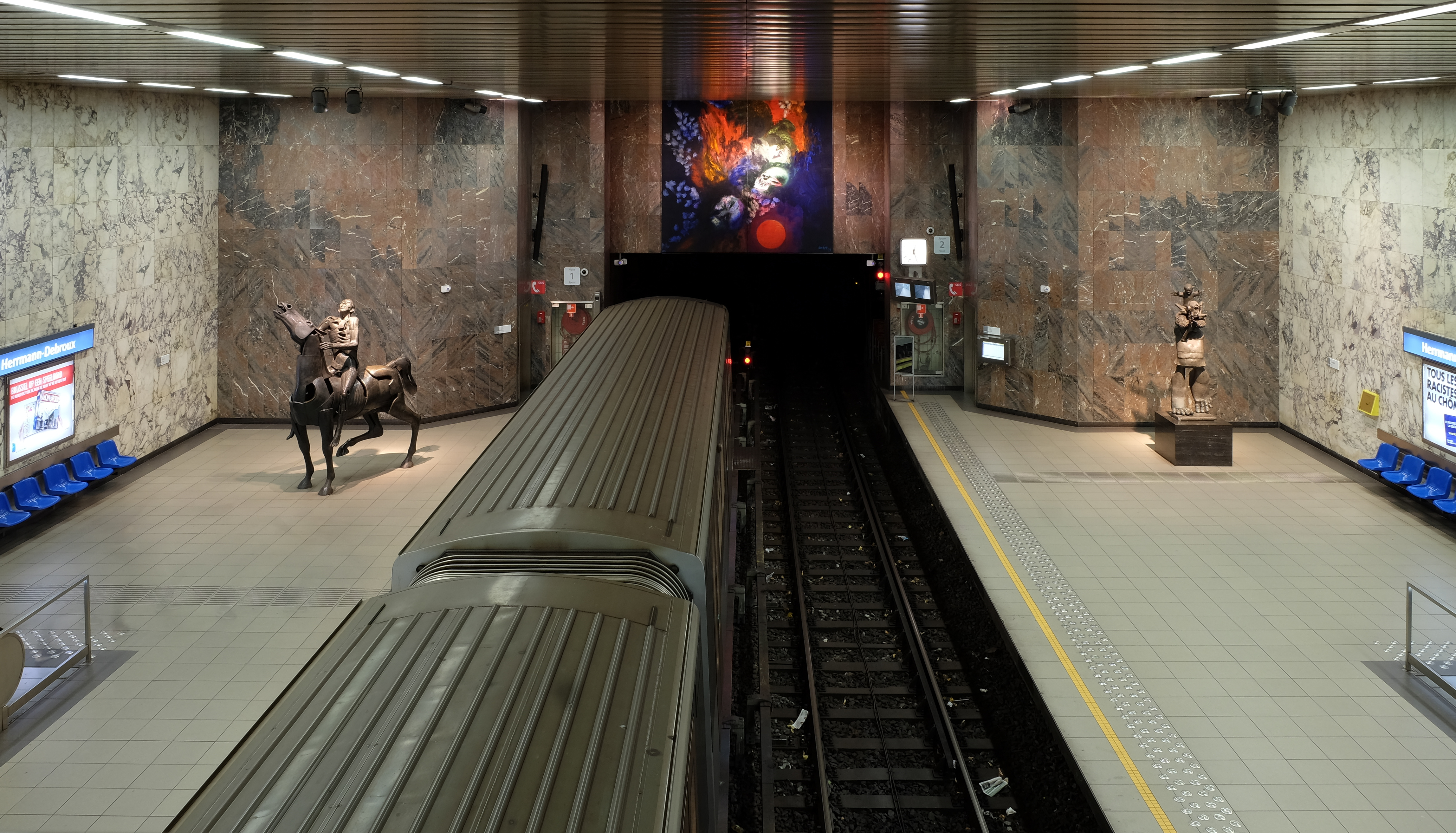 Hermann Debroux - view of the subway platforms from above. Metros arrive on the right and leave on the left. Art by Roel D’Haese ("L’Aviateur", right), Rik Poot ("Ode aan een bergrivier", left), and Jan Cox ("The fall of Troy", middle)